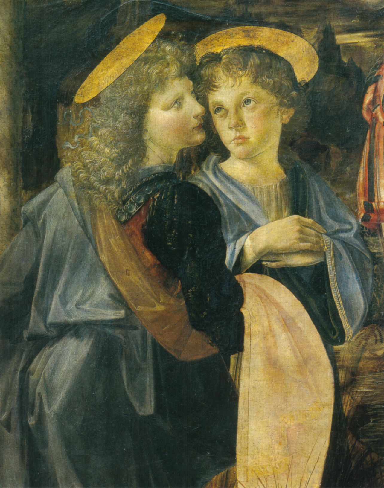 VERROCCHIO, Andrea del The Baptism of Christ Oil on wood, 177 x 151 cm Galleria degli Uffizi, Florence